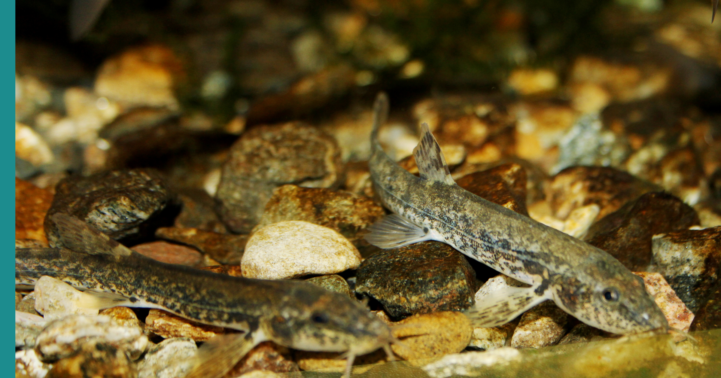 Fish Stone Loach on exhibition Subaqueous Vltava, Prague 2011, Czech Republic